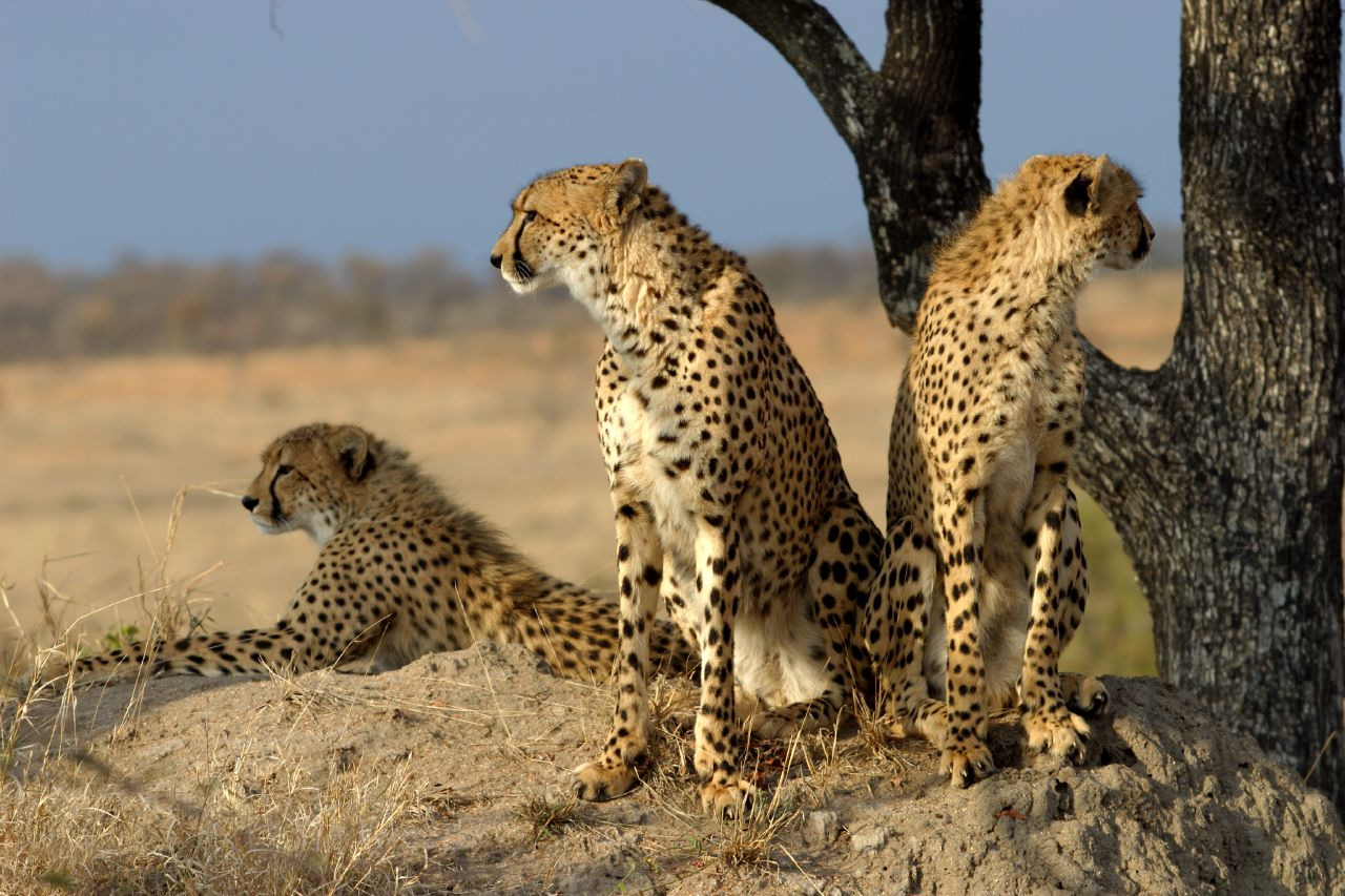 A group of South African Cheetahs (Acinonyx jubatus jubatus) at Sabi Sand Game Reserve, South Africa.Cheetah